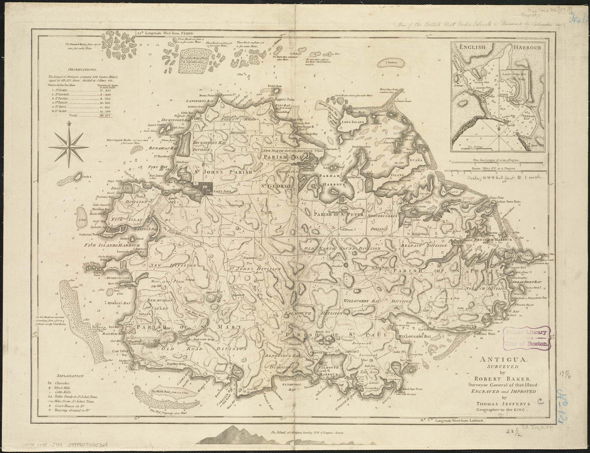 Antigua Dimension 45x60cm Scale: ca. 1:54,000 Call Number: G5050 1775 Zoom into this map at .